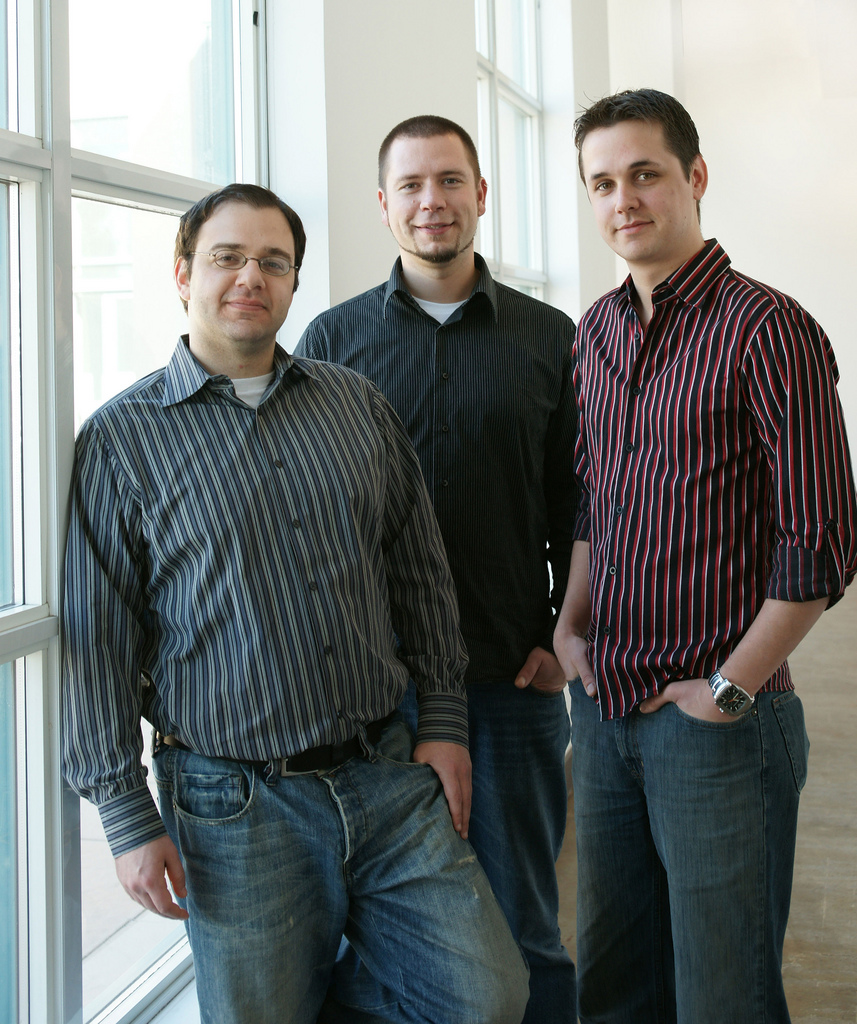 management team from left to right: Managing Editor, David Silverberg; Chief Technology Officer, Alex Chumak; Chief Executive Officer, Chris Hogg.